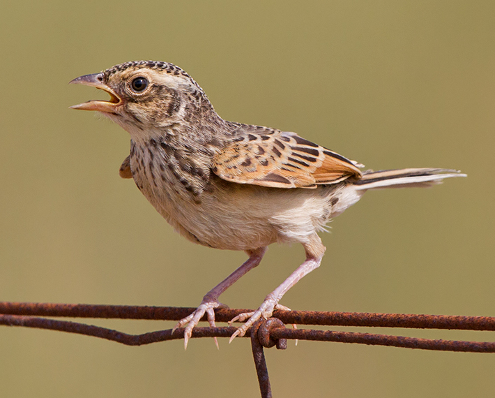 Mooloort Plains, Central Vic.